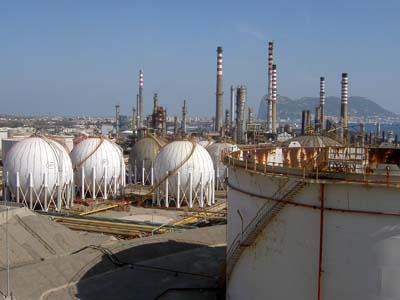 Inside the CEPSA refinery, San Roque